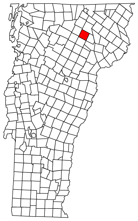 Description: Map of Vermont towns with Glover highlighted Source: Map created by Jared C. Benedict on 26 March 2004. Copyright: © Jared C. Benedict.